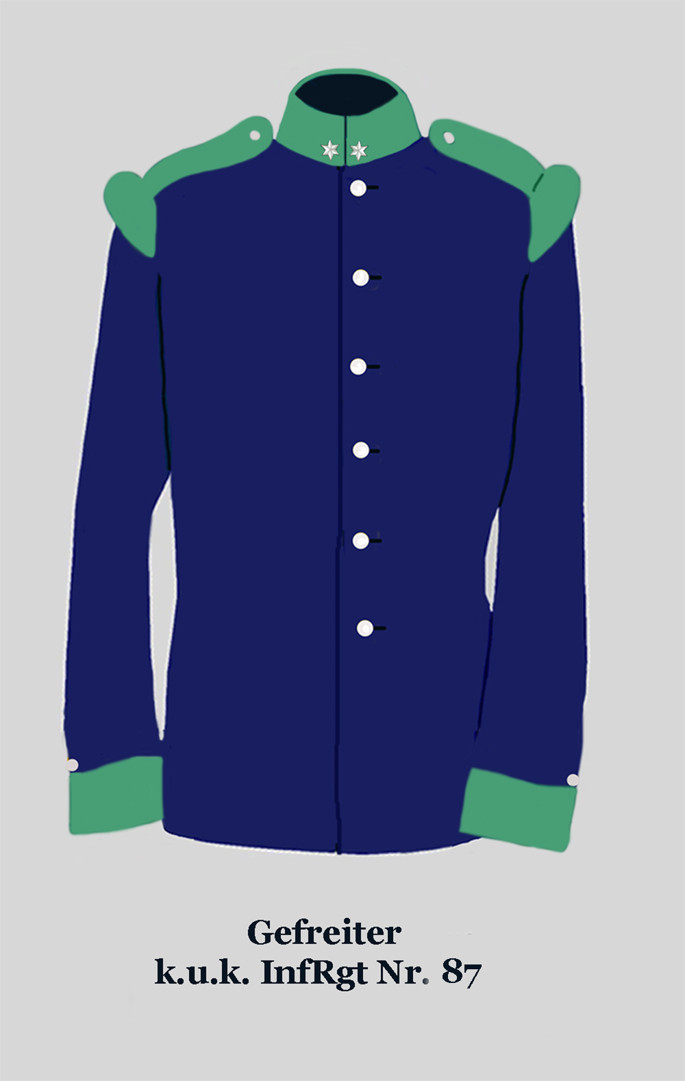 Private 1st class in the k.u.k. german 87th Infantry Regiment (Collar sea-green, buttons white)